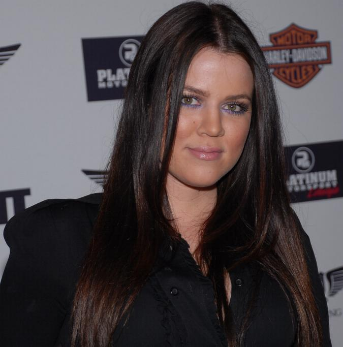 Khloé Alexandra Kardashian (born June 27, 1984) is an American television personality, celebutante, and fashion entrepreneur. She is best known for her appearances on the reality show Keeping Up with the Kardashians.